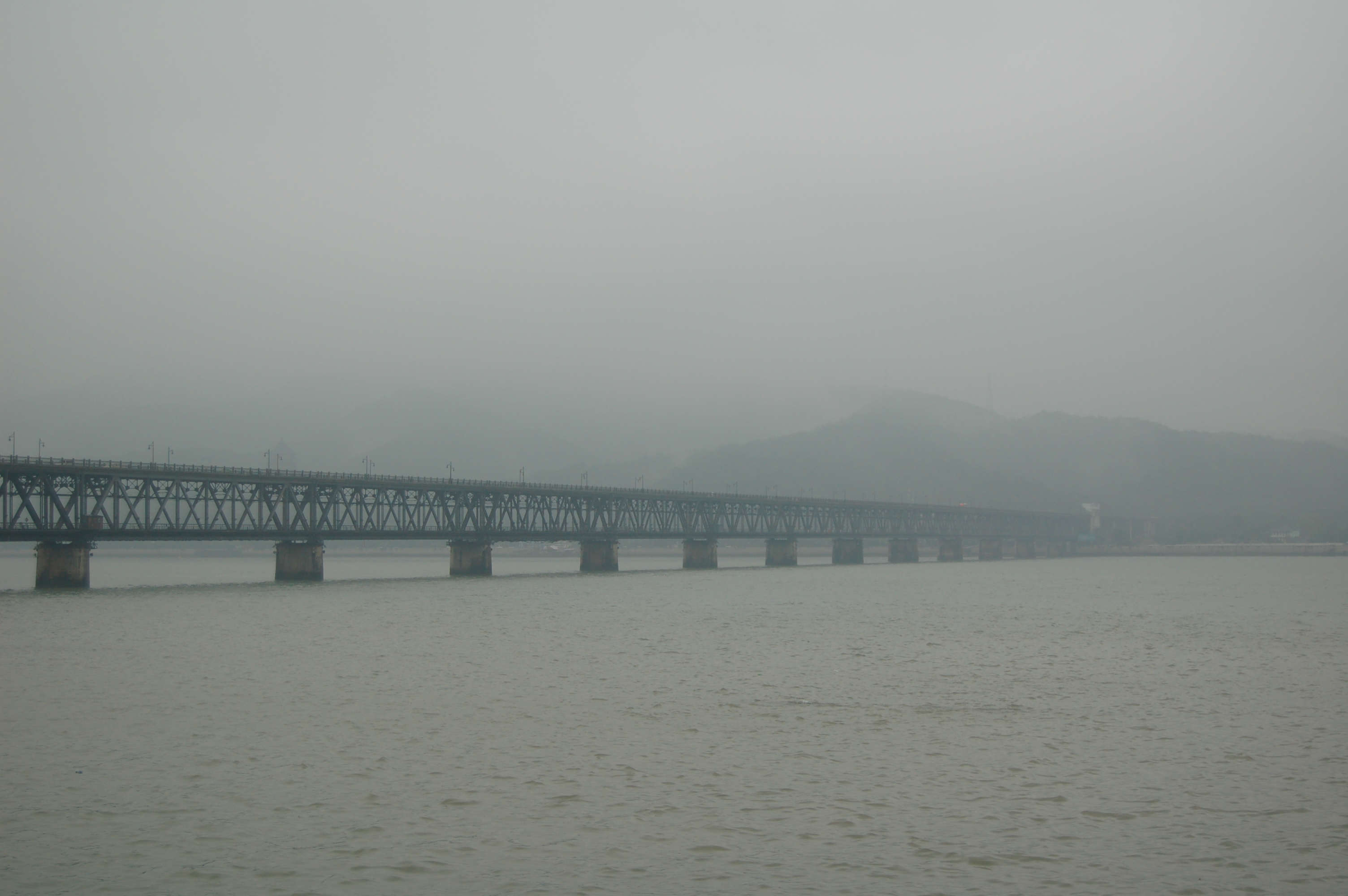 QianTang Bridge